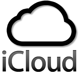 Icloud logo